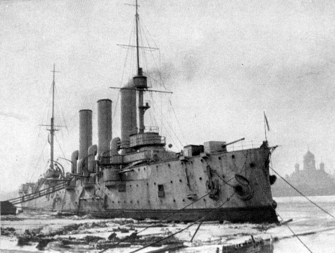 Cruiser Avrora at the Franco-ruskiy factory, 1917.